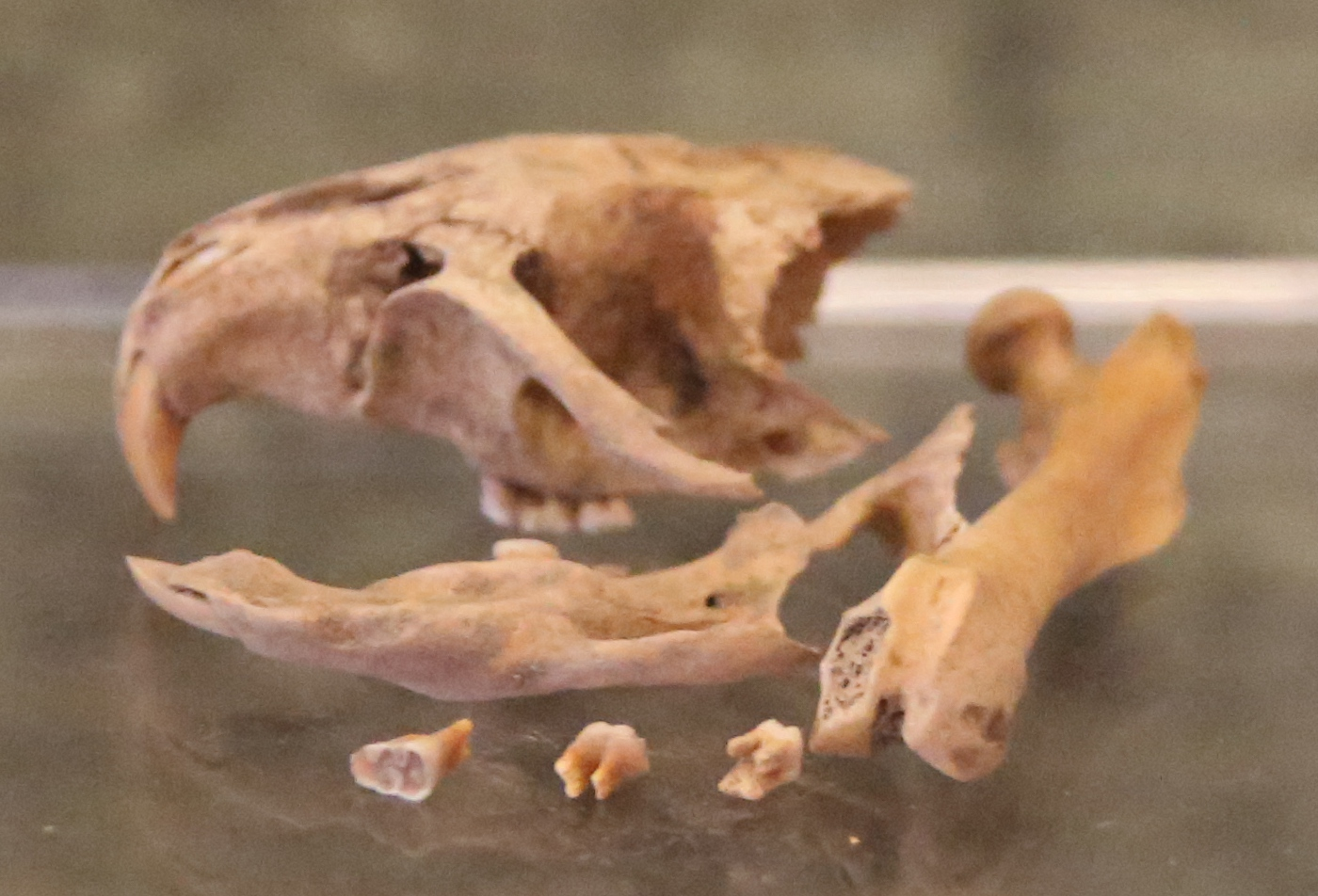 Photo of the skull of a Megaoryzomys curioi